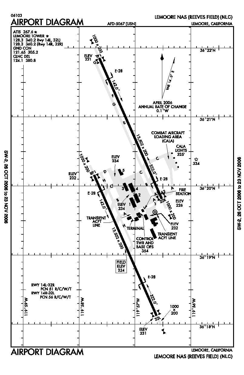 FAA airport diagram for NLC (NAS Lemoore) in California, United States.